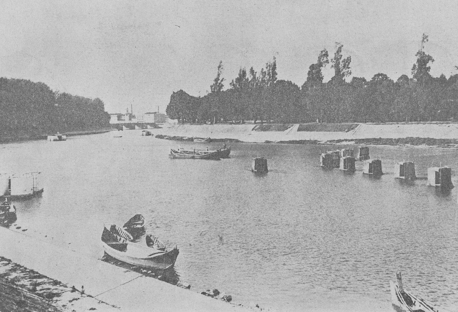 Baths along the Arno river in Pisa, Tuscany, Italy.